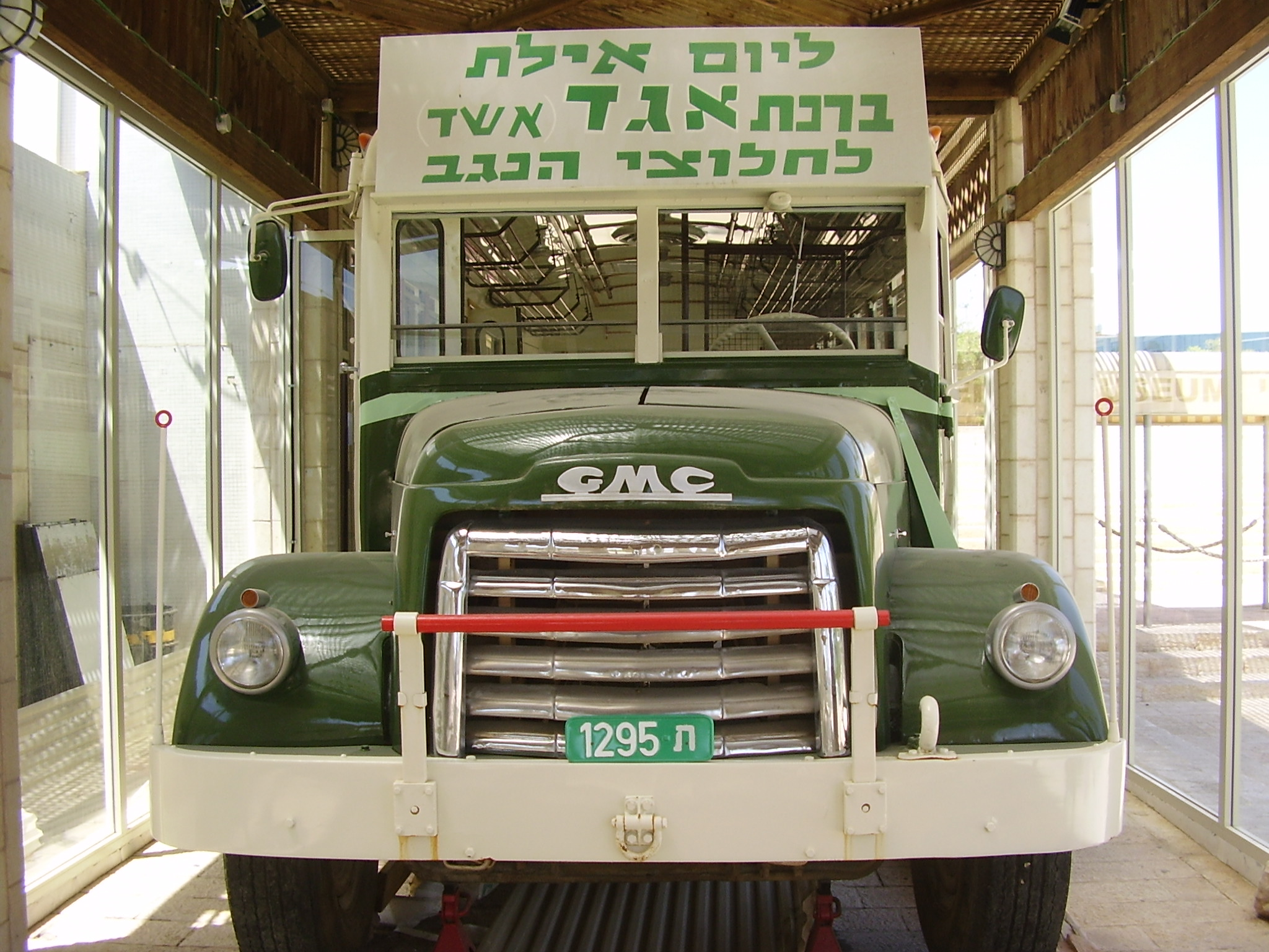 reconstructed model of gmc bus which was attacked by arabs in ma'ale ha'akrabum in 17/03/1954 and 12 of its passangers were murdered